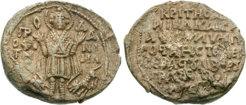 Liberos. Sebastos and krites, 13th-14th century. PB Seal (37mm, 46.89 g, 1h). O/PR/OFI/TH/C (PR ligate) down left field; D/A/NI/HL down right field; Daniel standing facing, orans, flanked by attacking lions at feet / KRITHC D[A]/NIHL KAI G[R]/AF[wN] NVN P/ROCTATHC TELEH/ CEBACT(OY) LIBER(OY)/ PRAXEIC K RI/NwN (Ns retrograde, second and third ligate; TH ligate) in seven lines.